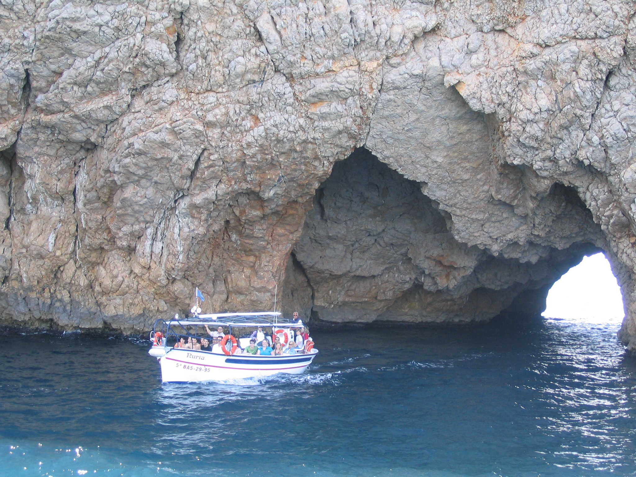 Arc a la costa al nord de l'Estartit